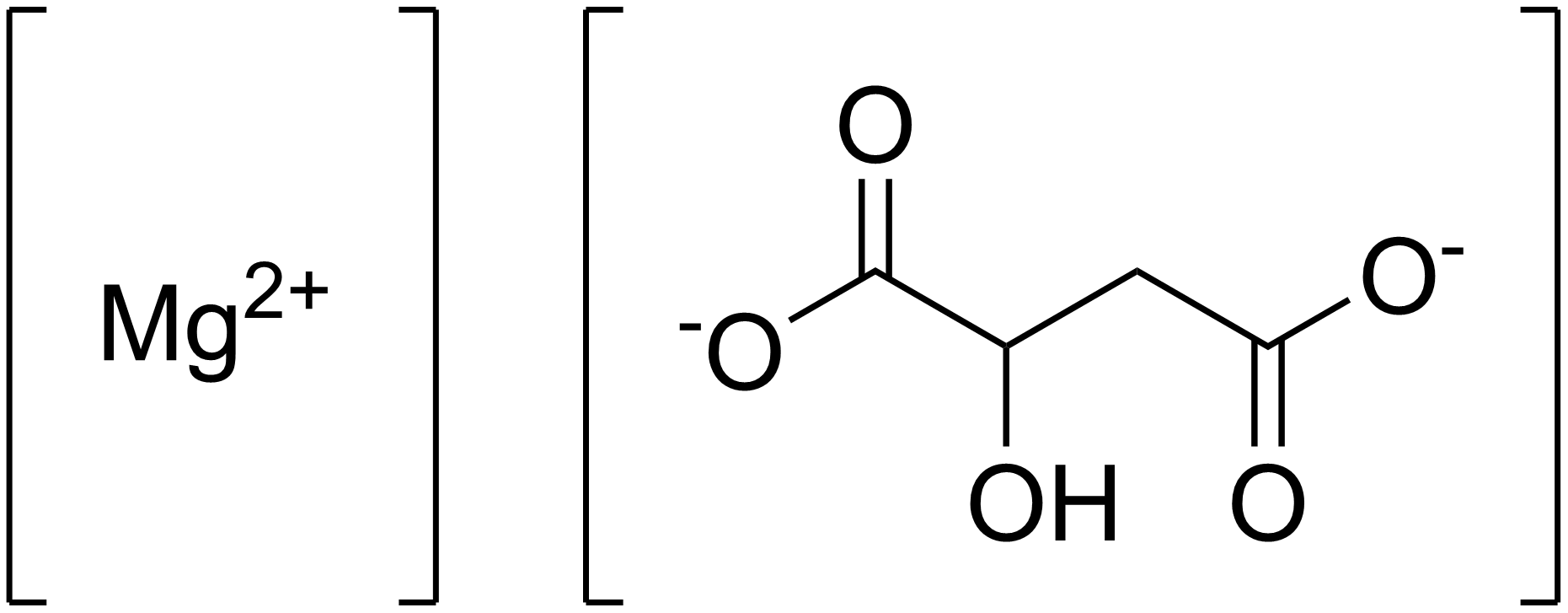 Chemical structure of magnesium malate